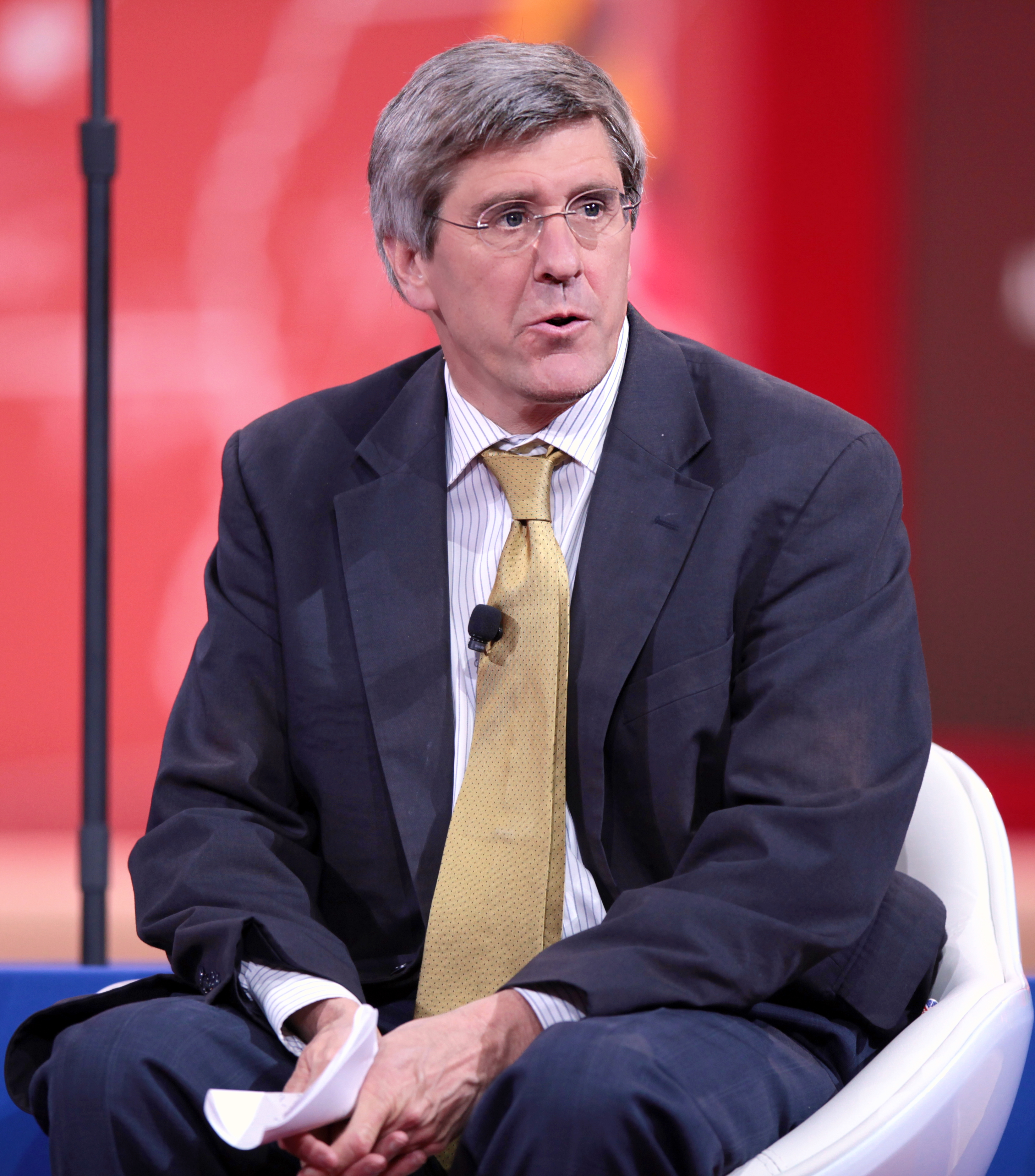 CPAC 2015